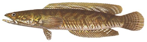 Species "Channa striata", described as "After Bleeker, 1879," from U.S. Geological Survey Circular 1251: "SNAKEHEADS (Pisces, Channidae) - A Biological Synopsis and Risk Assessment."